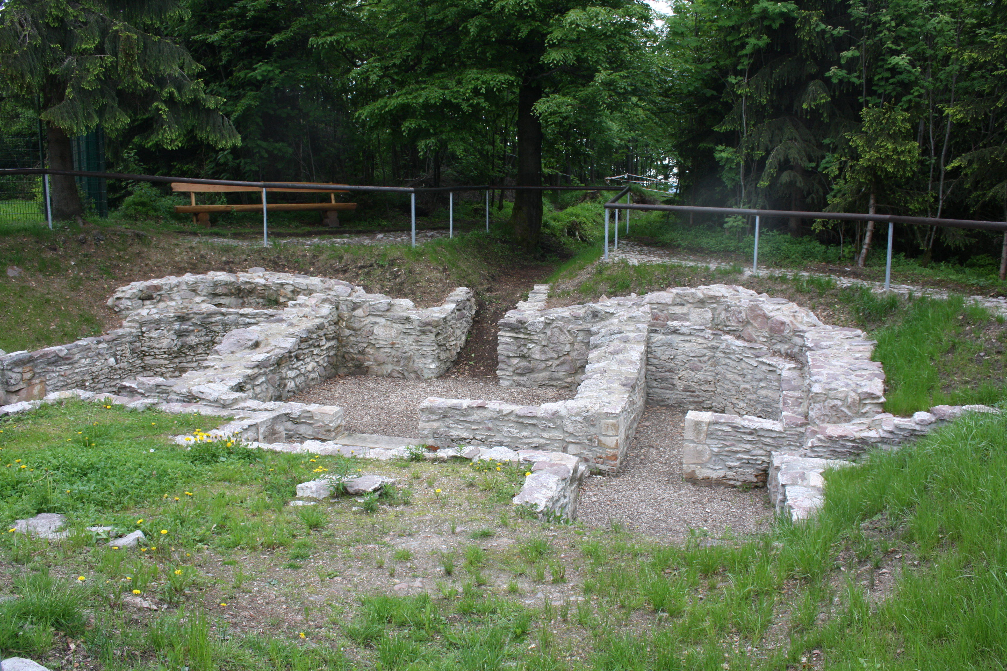 Germany, Thuringia, Ilmenau - remains of a historical hunting lodge near the Kickelhahn look-out from 1855